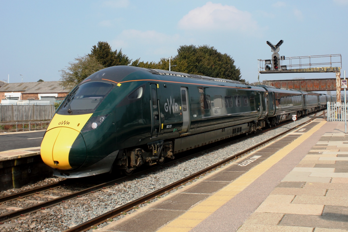 InterCity Express Units 802014 and 802021 (rear) leave Westbury with a Great Western Railway service from to London Paddington.